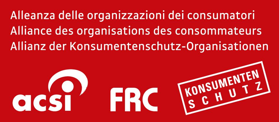 Logo of the Swiss Alliance of Consumer Organisations. It combines the logos of the three member organisations: Stiftung für Konsumentenschutz (SKS, founded in 1964) of German-speaking Switzerland; Fédération romande des consommateurs (FRC, founded in 1959) of French-speaking Switzerland; Associazione consumatrici e consumatori della Svizzera italiana (ACSI, founded in 1974) of Italian-speaking Switzerland.